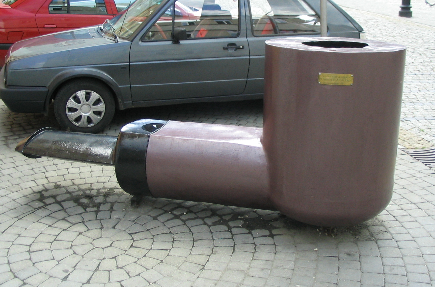 Pipe monument in Przemyśl, Poland.